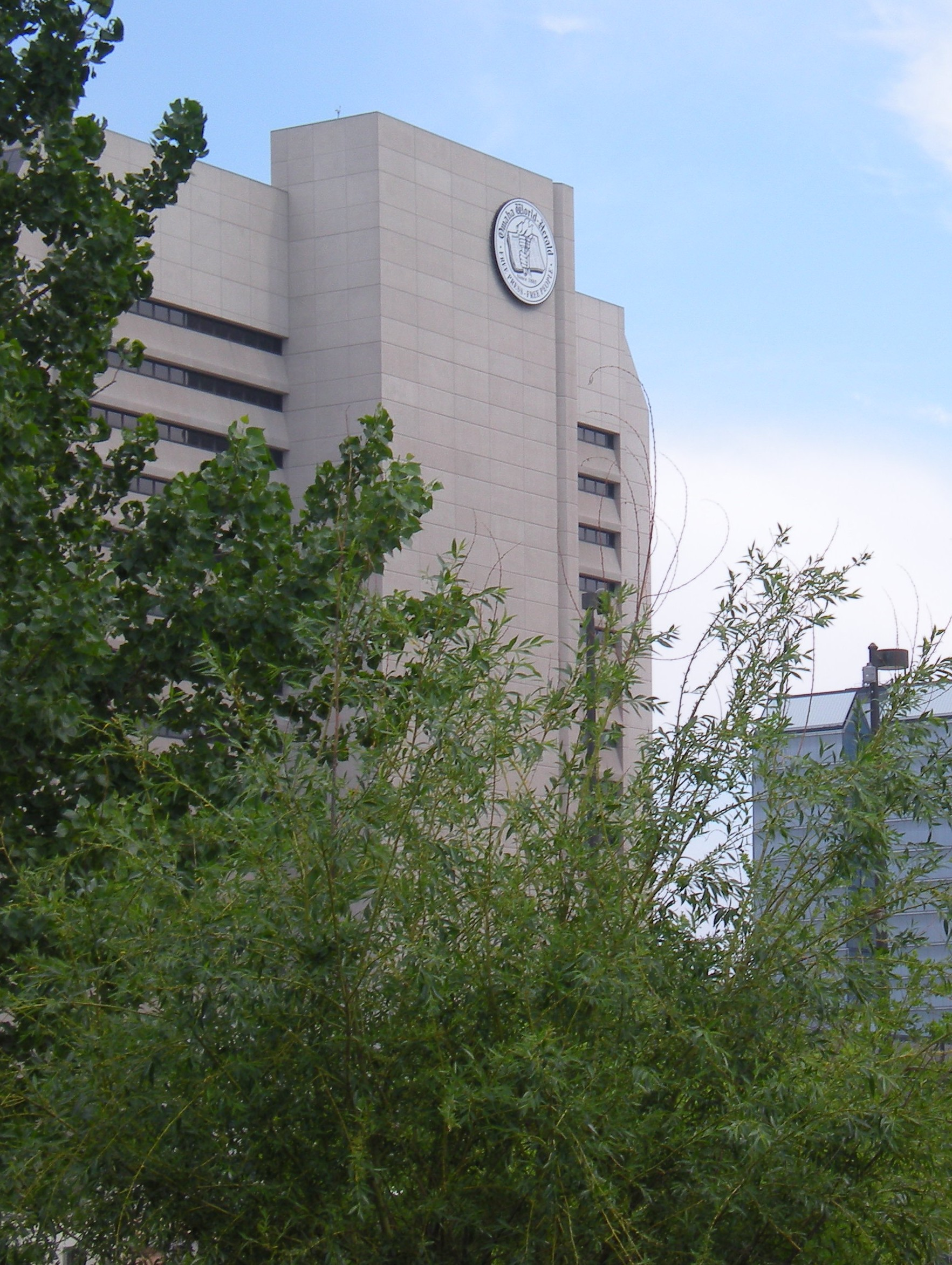 I took this photo of the Omaha World Herald Building in 2009